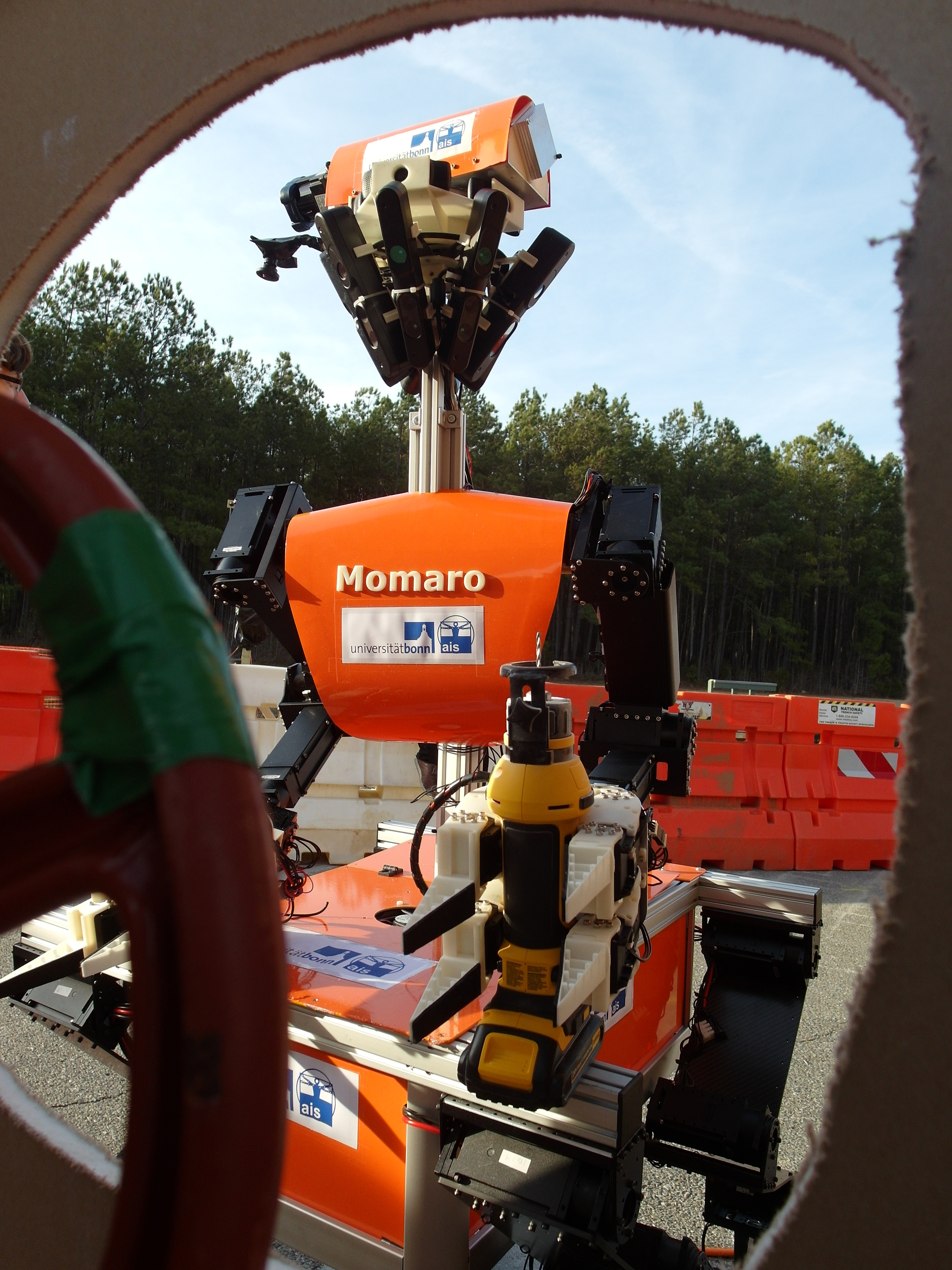 Mobile Manipulation Robot Momaro, developed in the Autonomous Intelligent Systems group of University of Bonn, Germany at the DARPA Robotics Challenge Testbed.